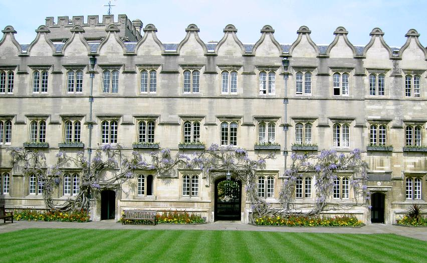 I took this photo myself and I am happy for it to be released into the public domain. Quad at Jesus College, Oxford